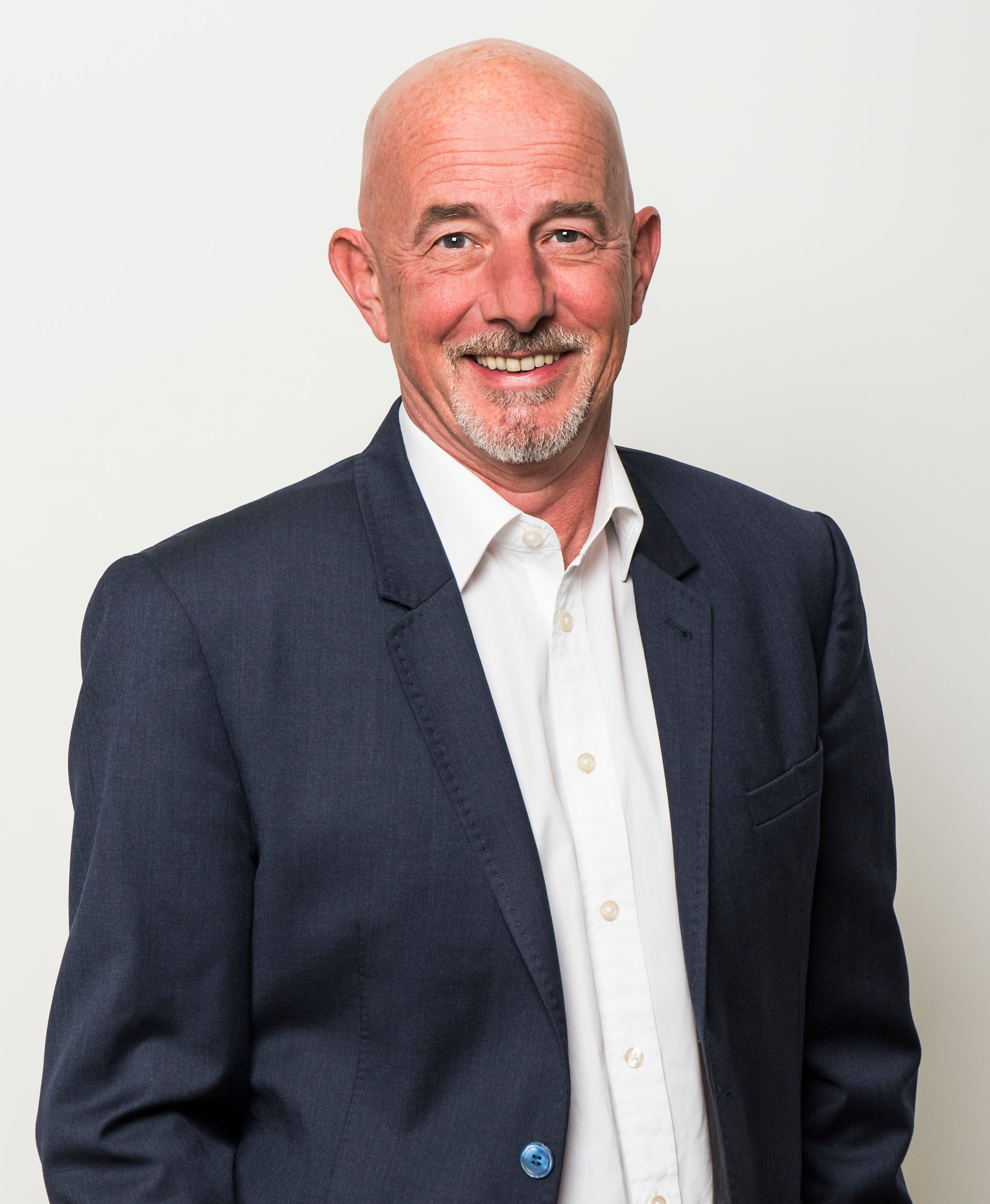 Ewan Kirk - headshot